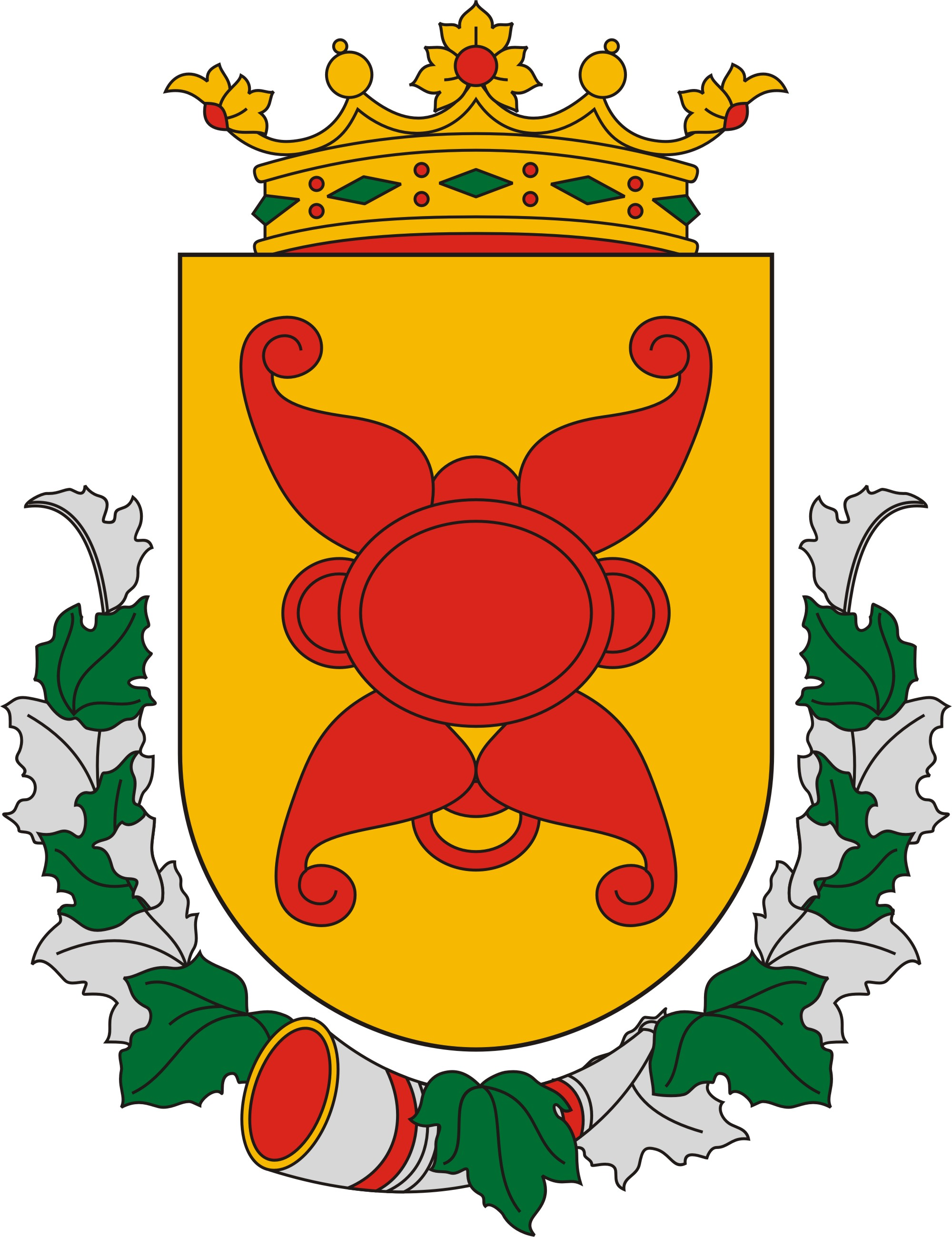 Coat of arms of Balotaszállás, Hungary